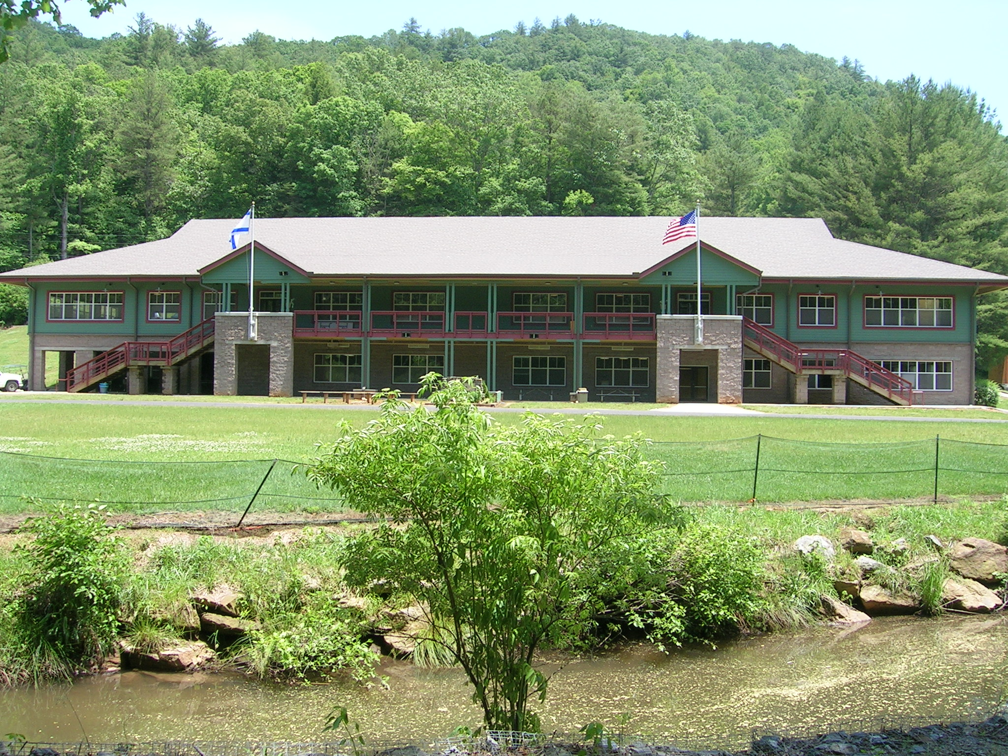 I took this picture in 2005 at Camp Ramah Darom. I am uploading this picture to put on its page.